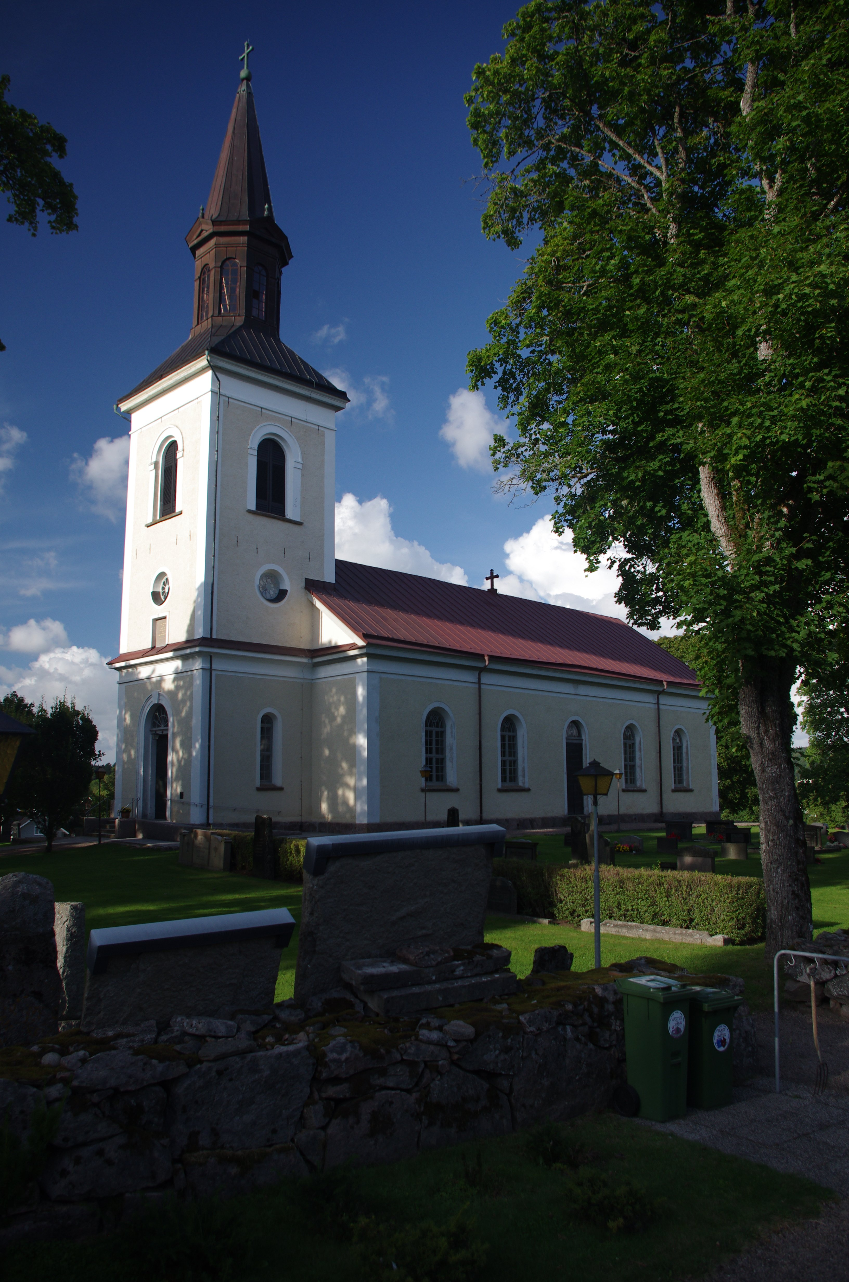 Blidsberg church in Ulricehamn muicipality in Västergötland and Västra Götaland county, Sweden.